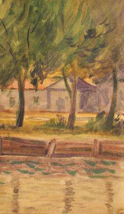 Drawing: "Evening in Klaipeda", Media - watert color-paper, size - 21,3X12,3